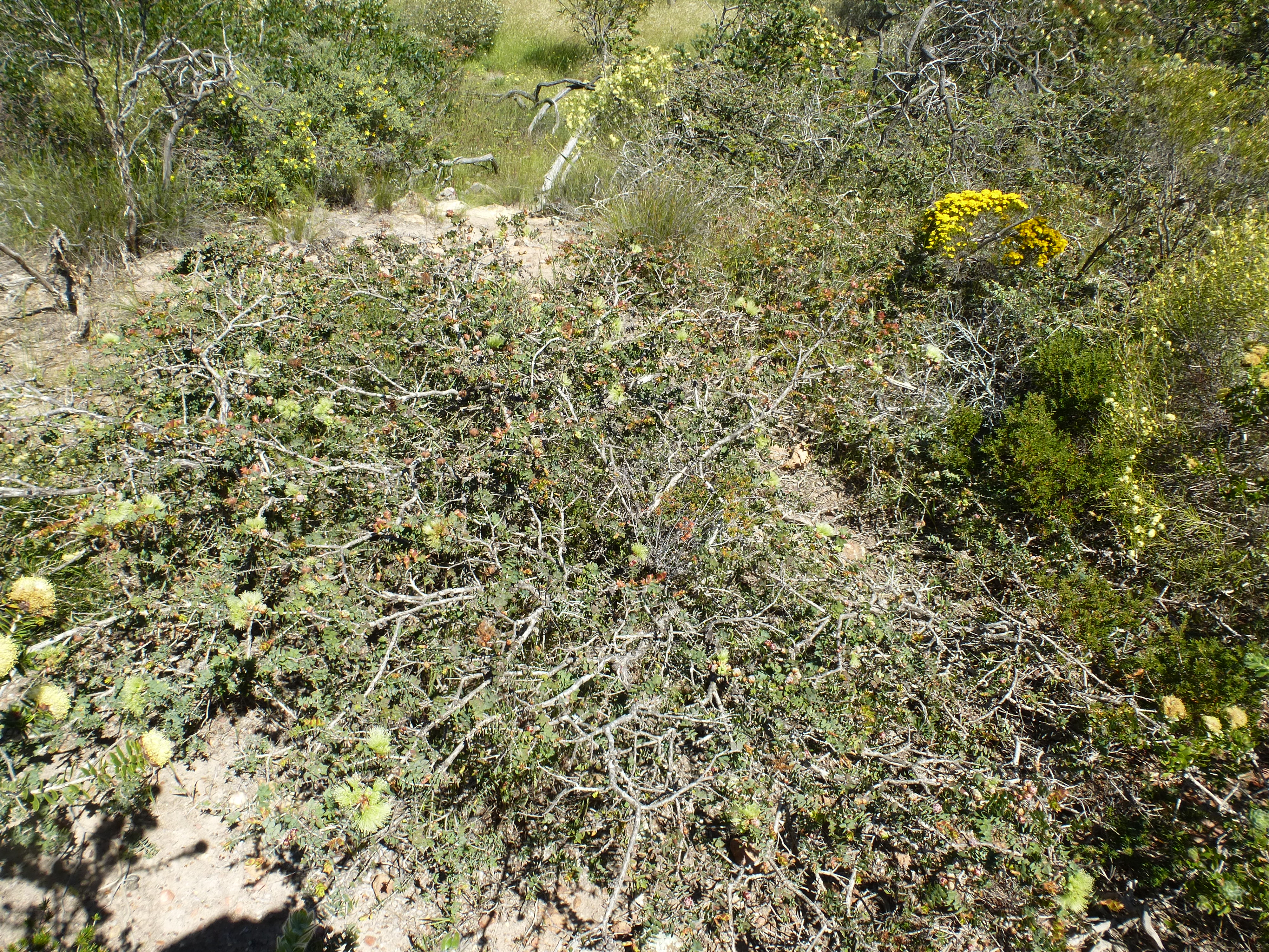 Melaleuca spectabilis growing at the type location north of Geraldton.